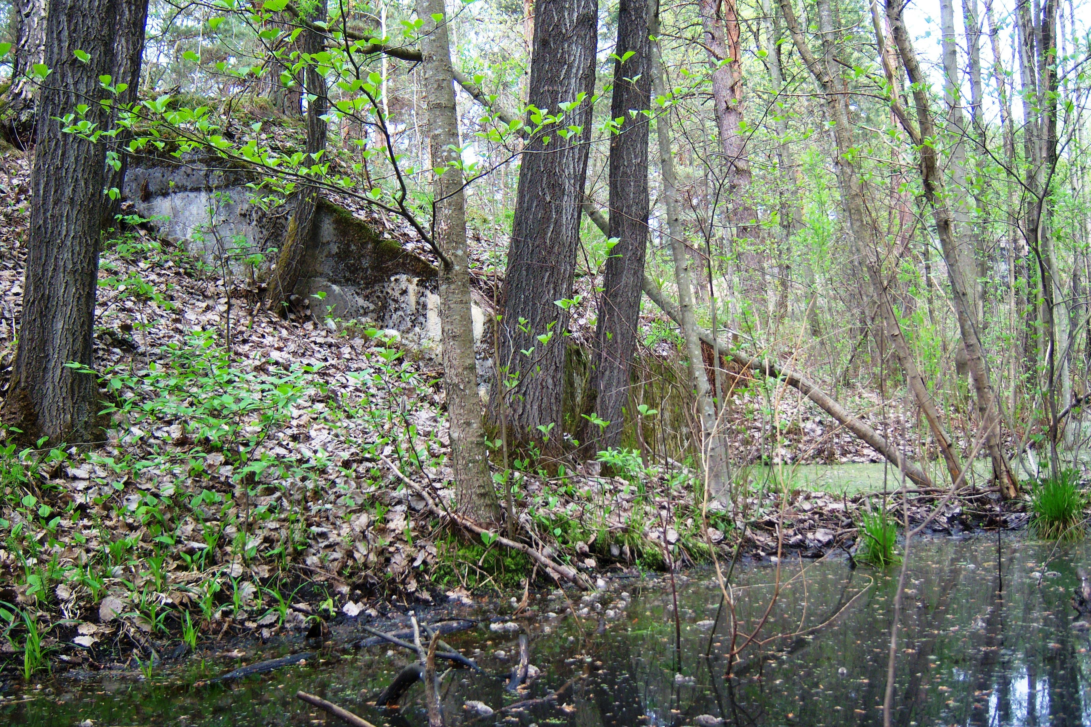 Kaunas Fortress. Romainiai Fort (or X Fort), Lithuania. Remains of the Shelter Kategorija: Kauno tvirtovė